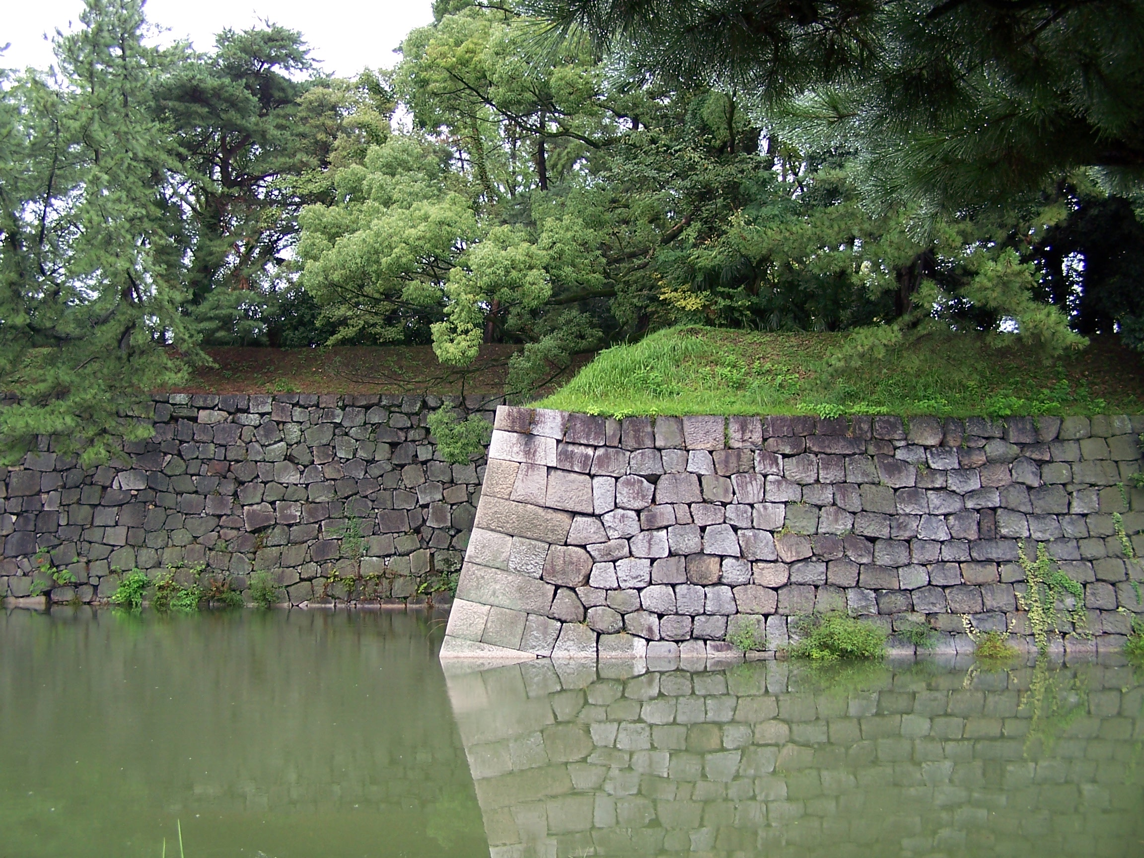 Nijo Castle, moat and exterior, Kyoto, Japan.